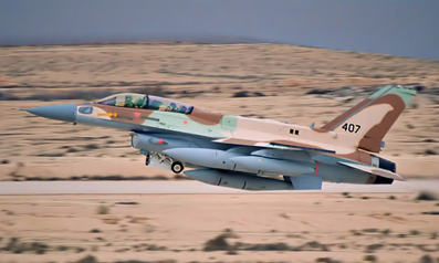 IAF F-16I "Sufa"